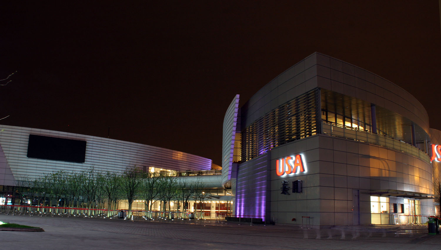 US Pavilion of Expo 2010